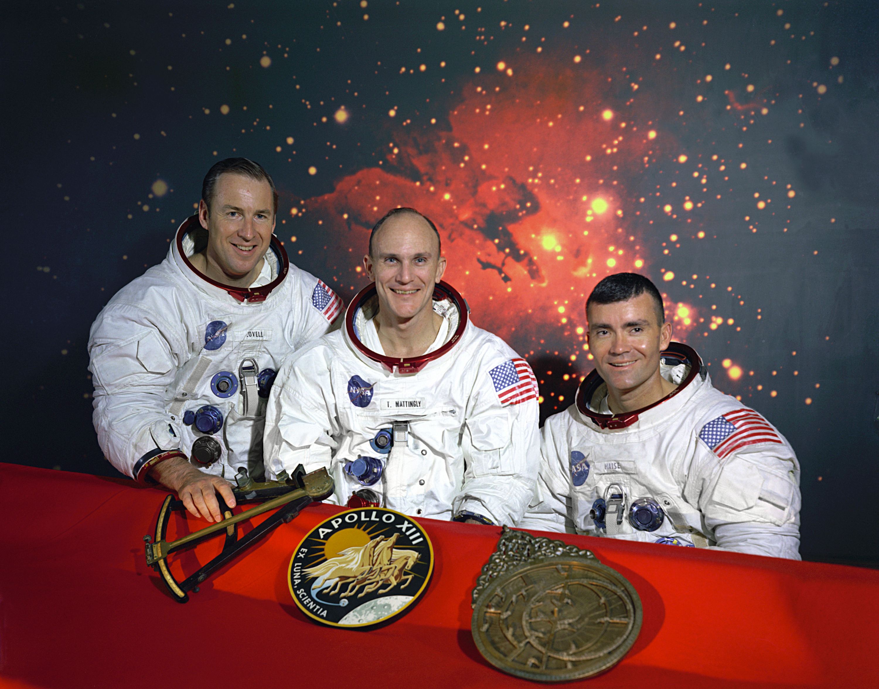 The original Apollo 13 prime crew. From left to right are: Commander, James A. Lovell, Command Module pilot, Thomas K. Mattingly and Lunar Module pilot, Fred W. Haise. On the table in front of them are from left to right, a model of a sextant, the Apollo 13 insignia, and a model of an astrolabe. The sextant and astrolabe are two ancient forms of navigation.Command Module pilot Thomas "Ken" Mattingly was exposed to German measles prior to his mission and was replaced by his backup, Command Module pilot, John L."Jack" Swigert Jr.